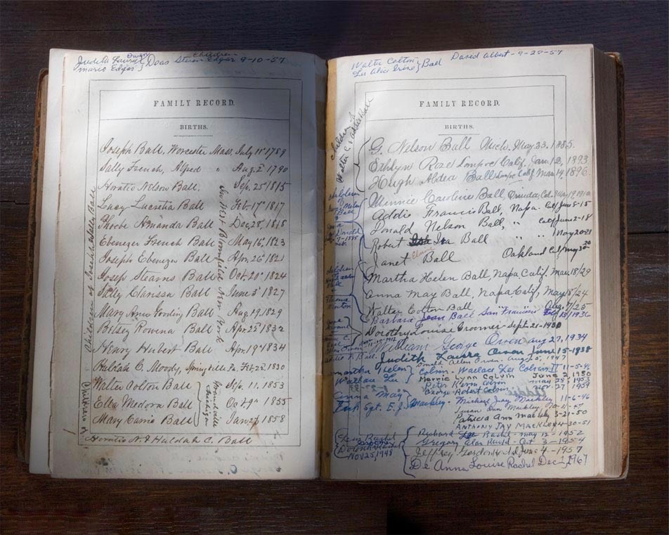 An Antebellum era (pre-civil war) family Bible dating to 1859.